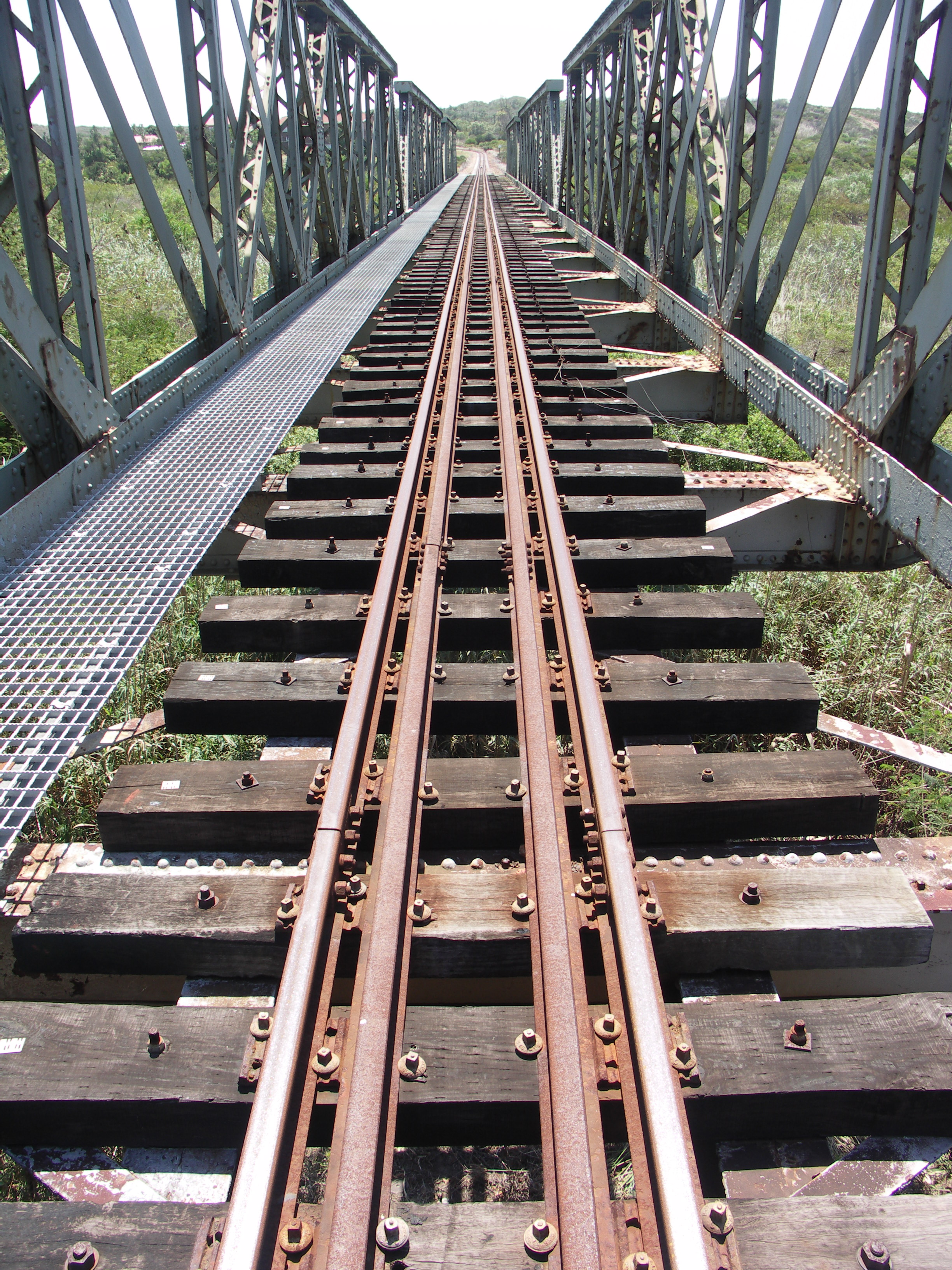 Narrow gauge Avontuur railway bridge over the Kabeljous River, Kouga, Eastern Cape, South Africa